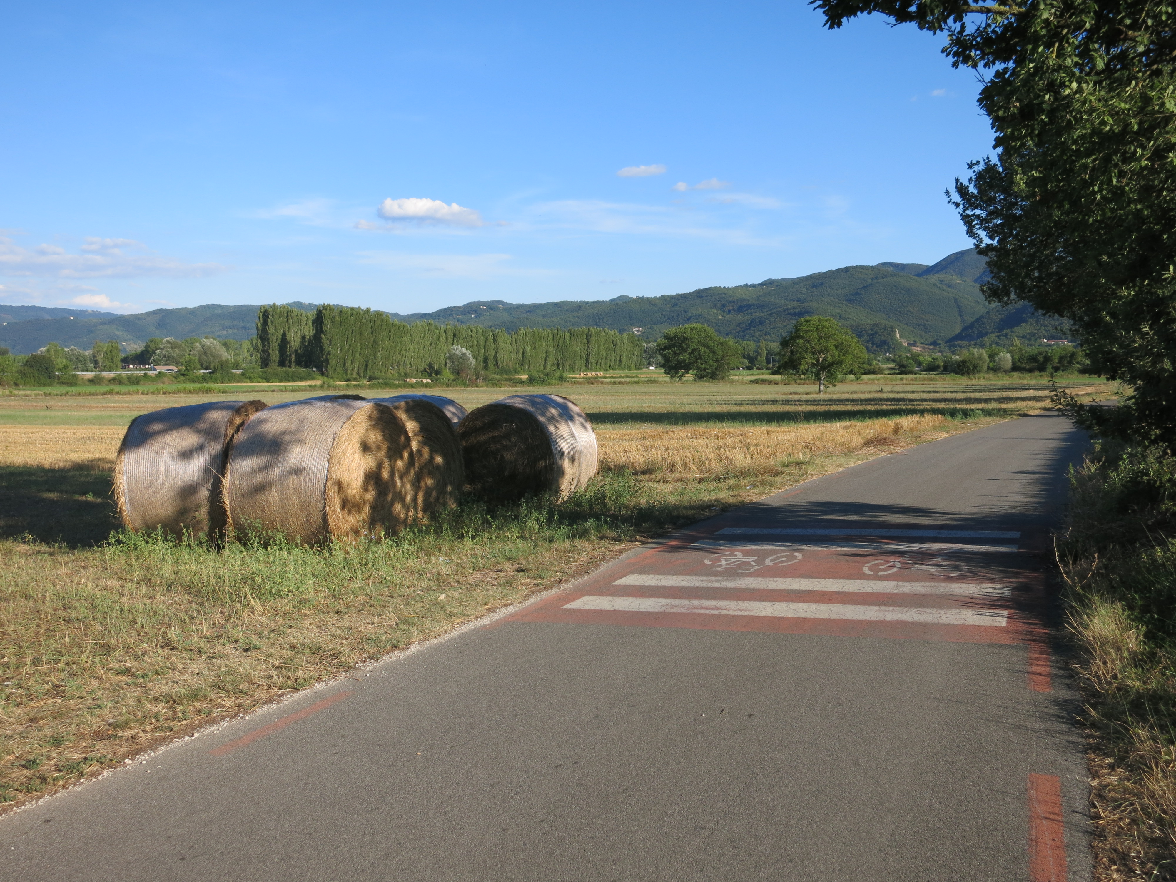 Rieti valley bikeway - province of Rieti, Lazio, Italy